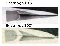 Comparison of the empennage of the Lebaudy Patrie 1906/1907 (acknowledgements to J.-P. Lauwers)